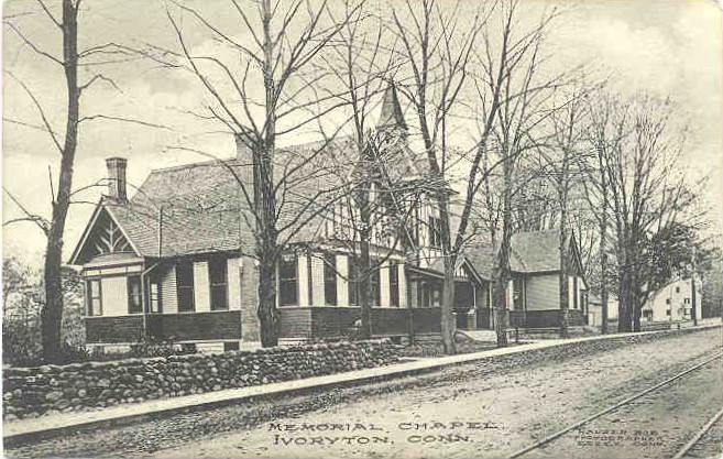 1912 postcard of Memorial Chapel in Ivoryton, Connecticut